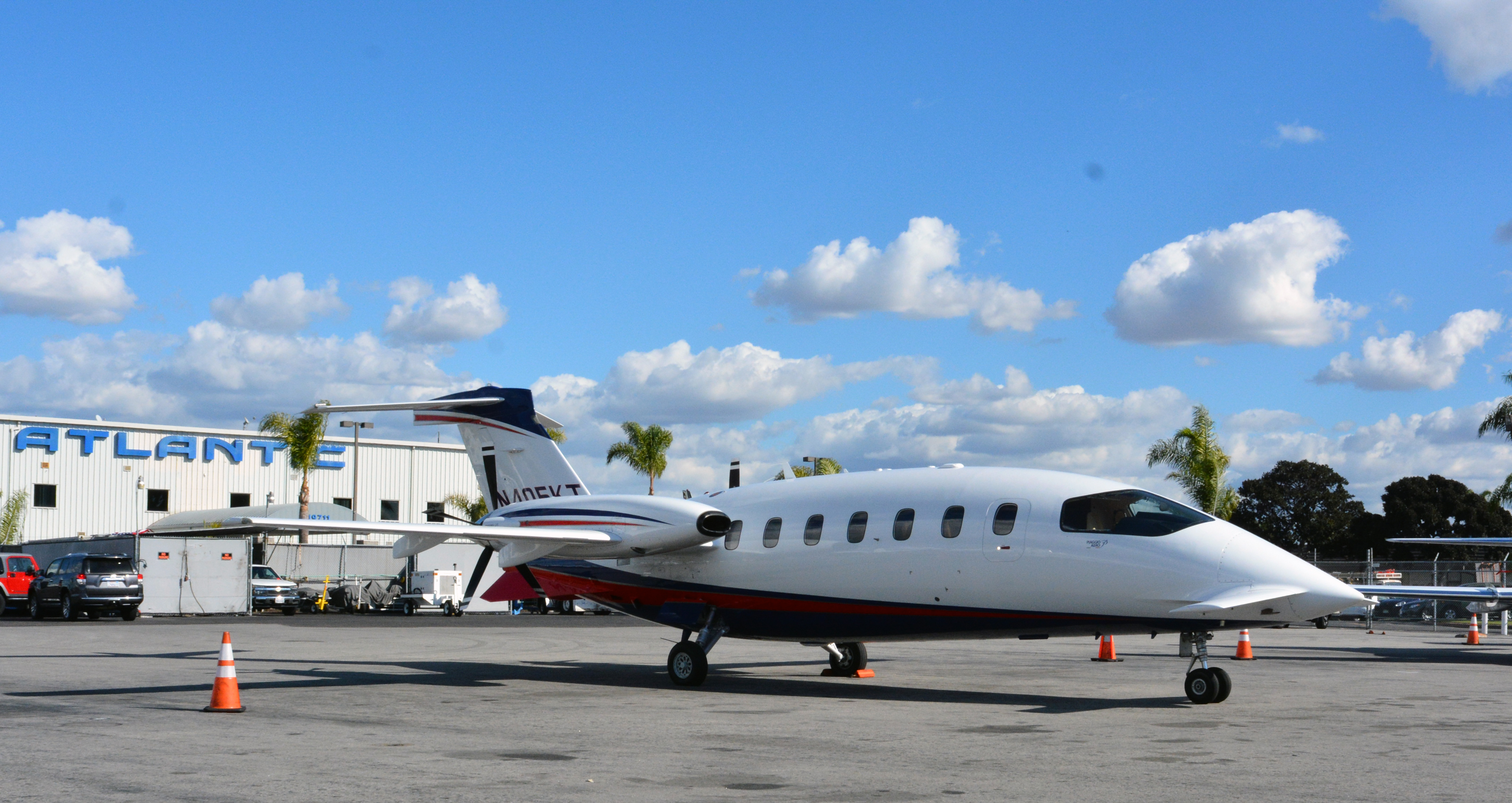 Piaggio P 180 Avanti photo D Ramey Logan